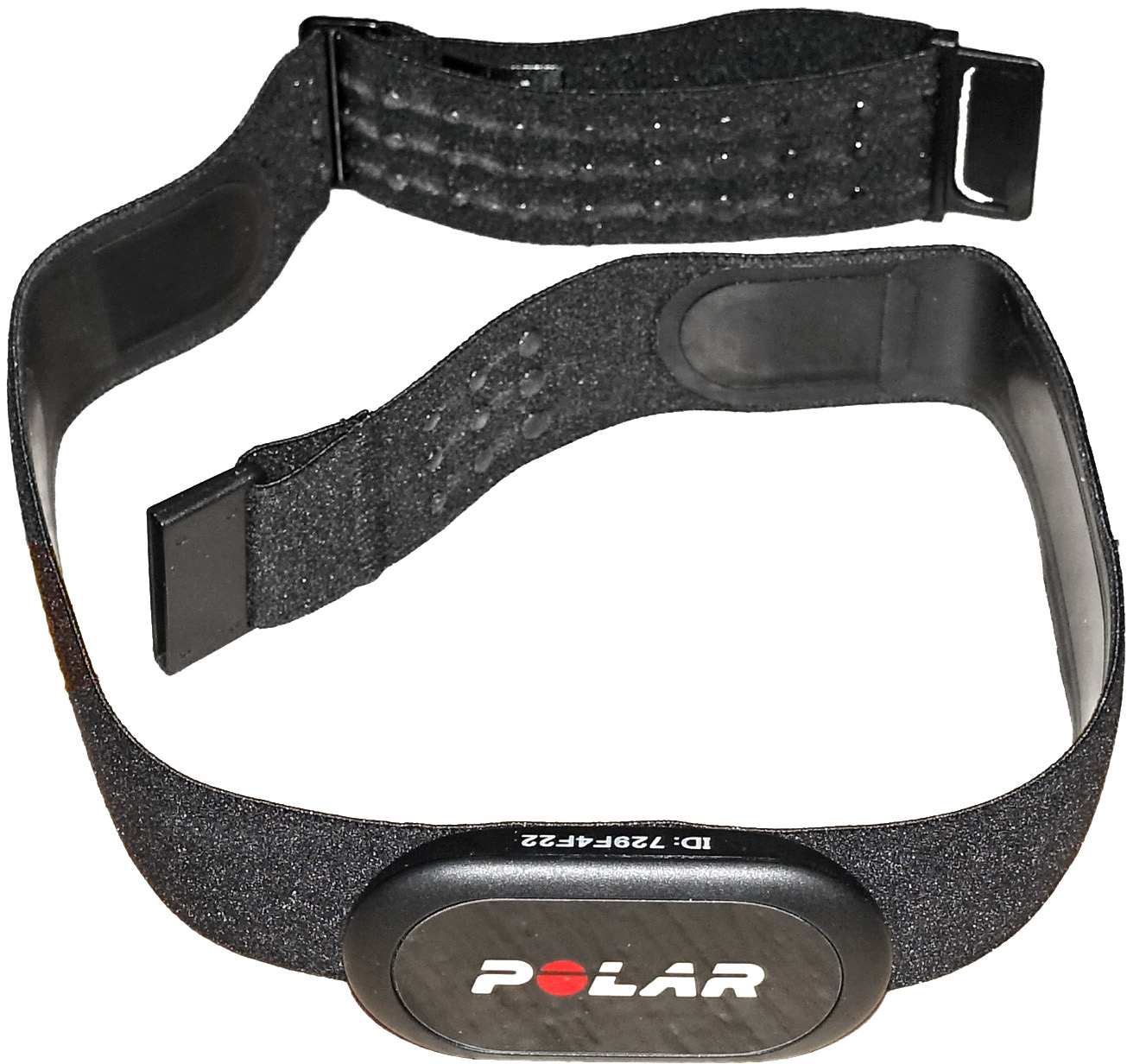 Polar H10 heart rate strap.